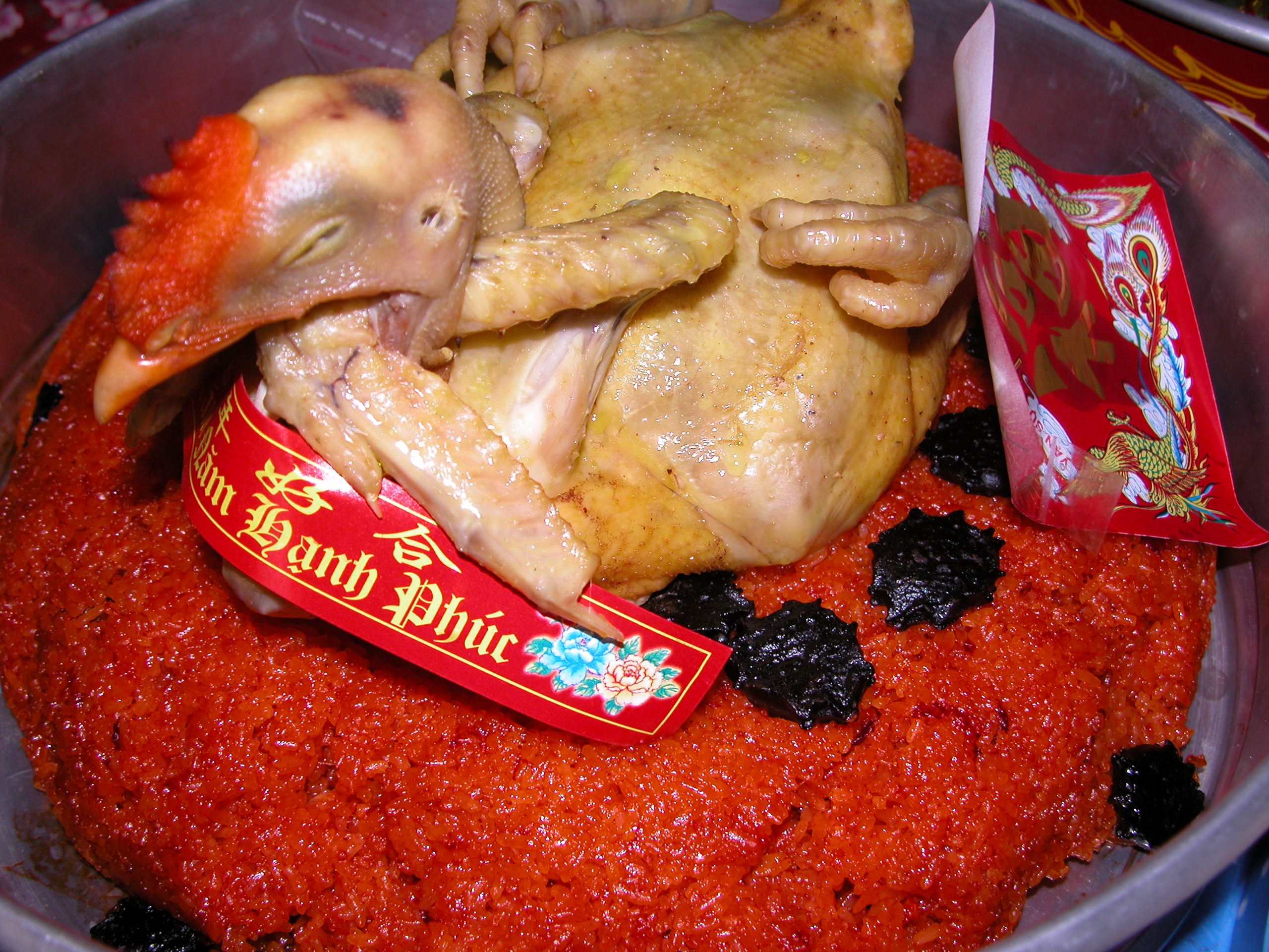 Xôi gấc used during the wedding ceremony in Vietnam.